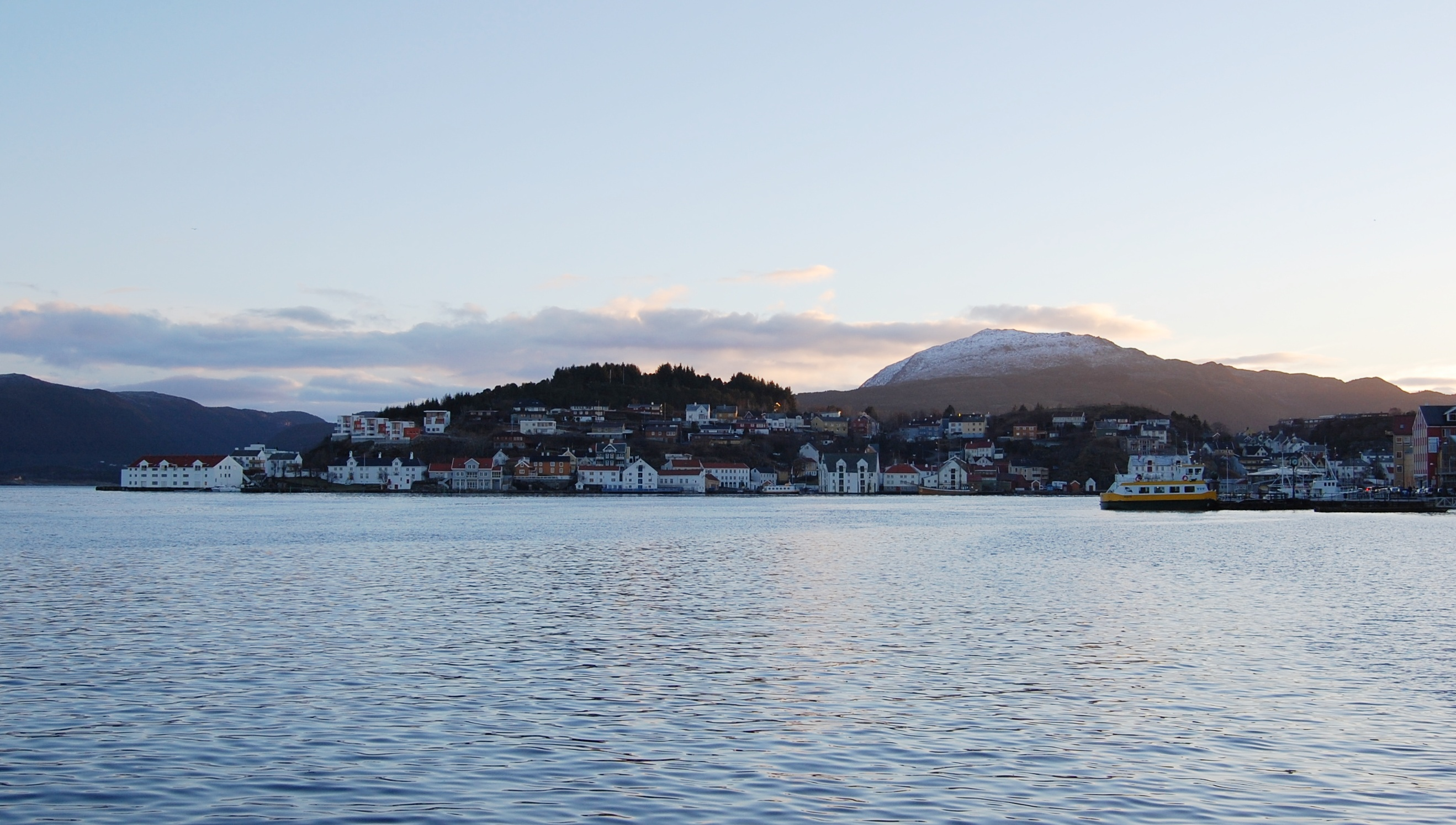 The island Innlandet in Kristiansund